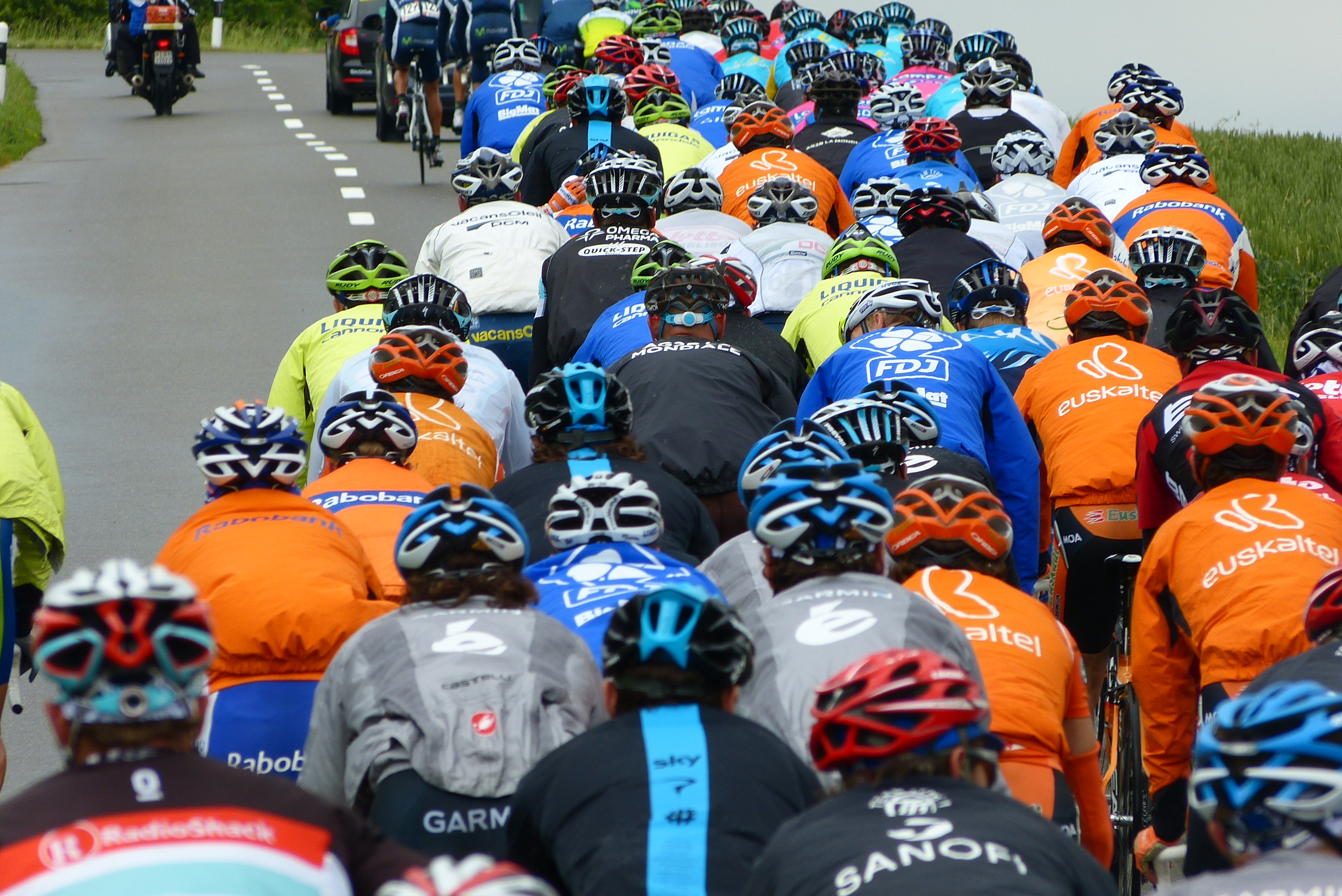 The Tour de Suisse 2012, near Staffelegg